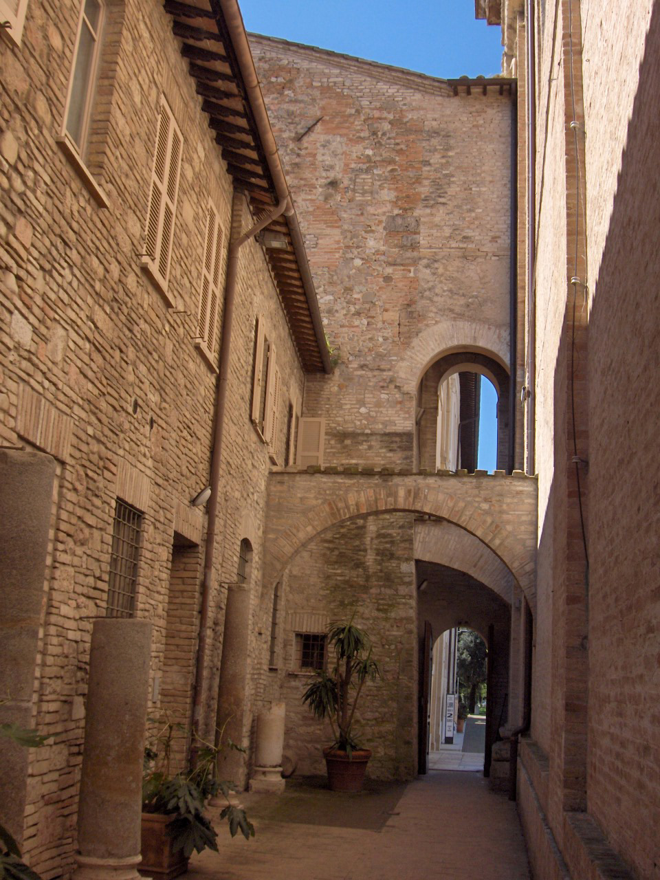 Friary of the Porziuncola; Basilica of Santa Maria degli Angeli, Assisi, Italy